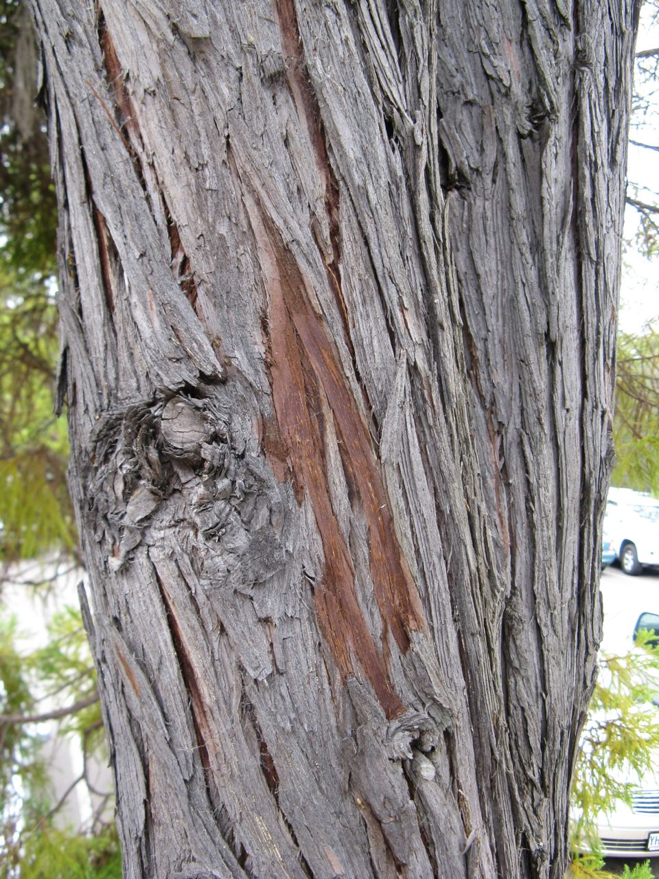 Callitris macleayana, Australian National Botanic Gardens, Canberra